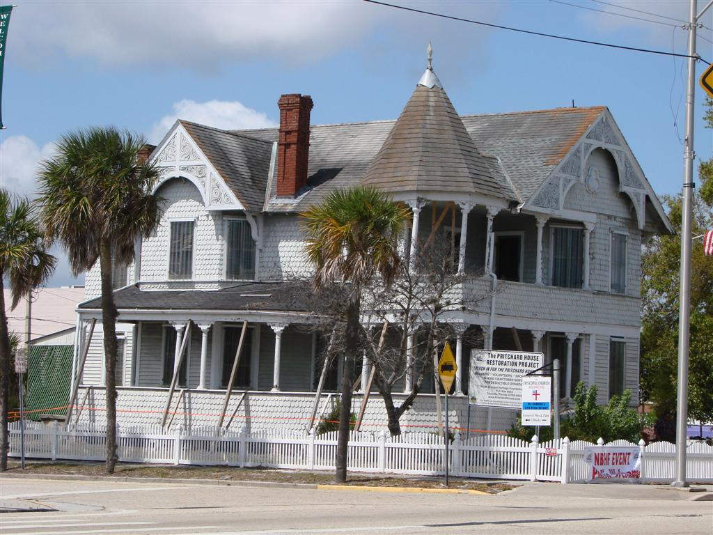 Pritchard House in Titusville, Florida. March 24, 2007.